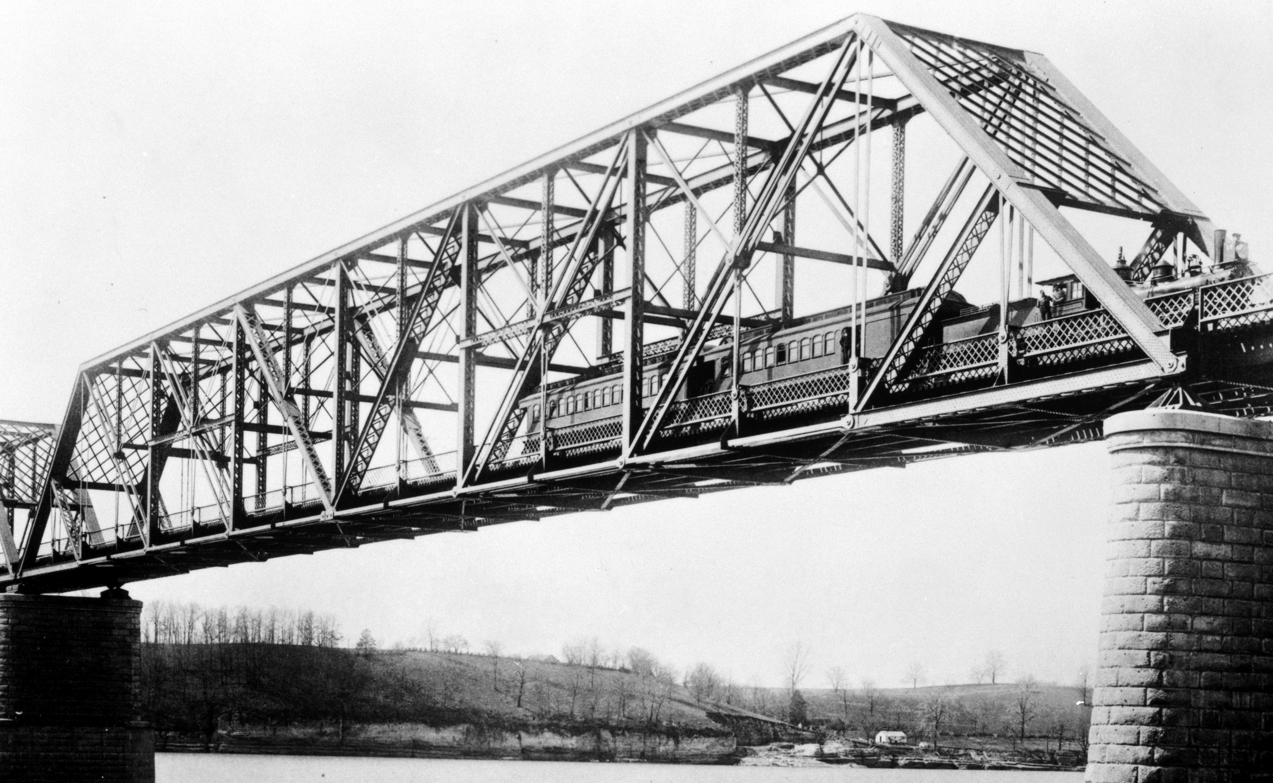 Photocopy of historic photograph, photographer unknown, date unknown. TRAIN PASSING THROUGH SPAN AT NORTH END OF BRIDGE - Bellefontaine Bridge, Saint Louis, Independent City, MO